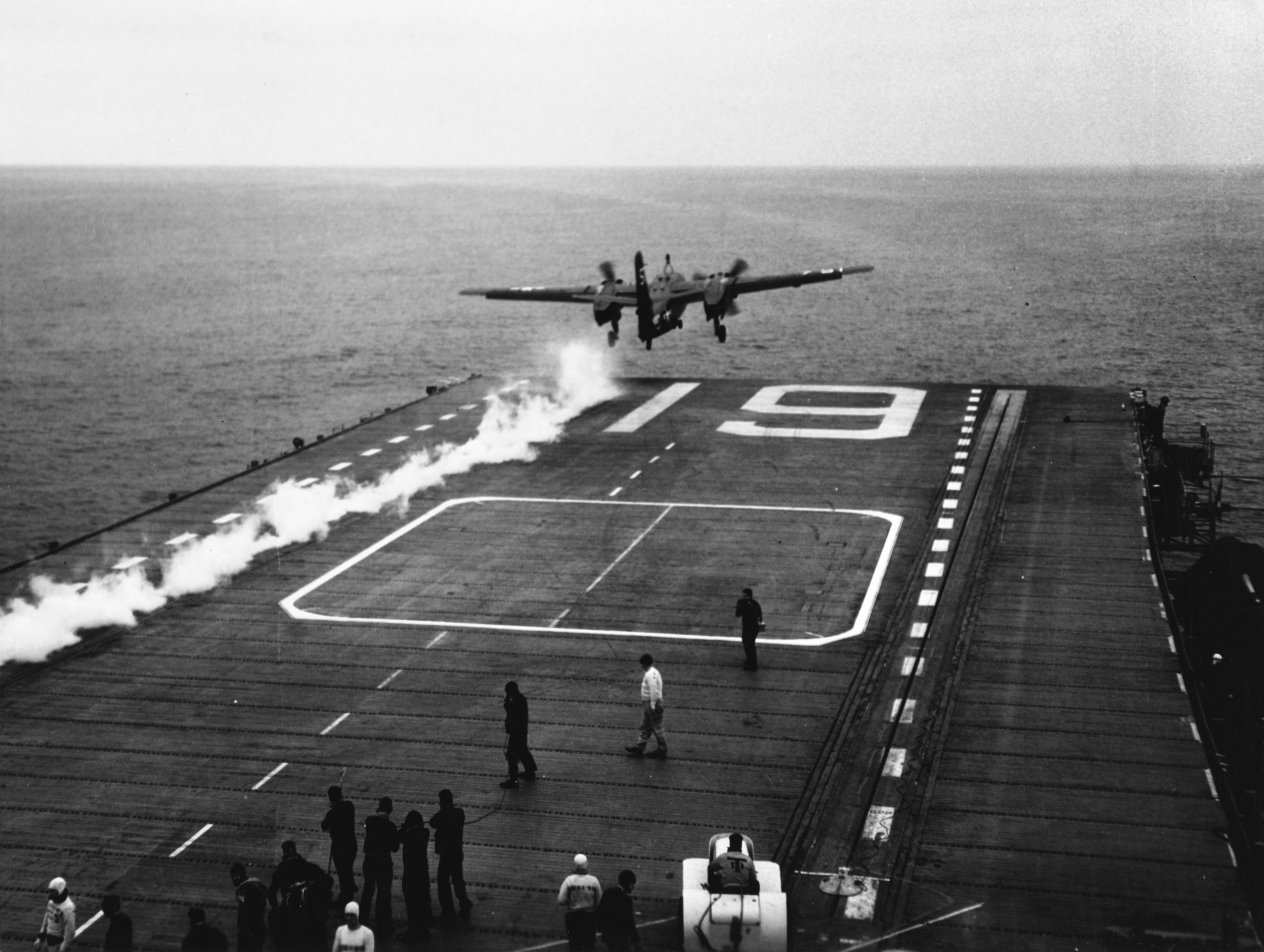 Cmdr. Henry J. Jackson, in a Grumman S2F-1 Tracker, pilots the first aircraft to be launched by the C-11 steam catapult off the deck of the aircraft carrier USS Hancock (CVA-19) on 1 June 1954.